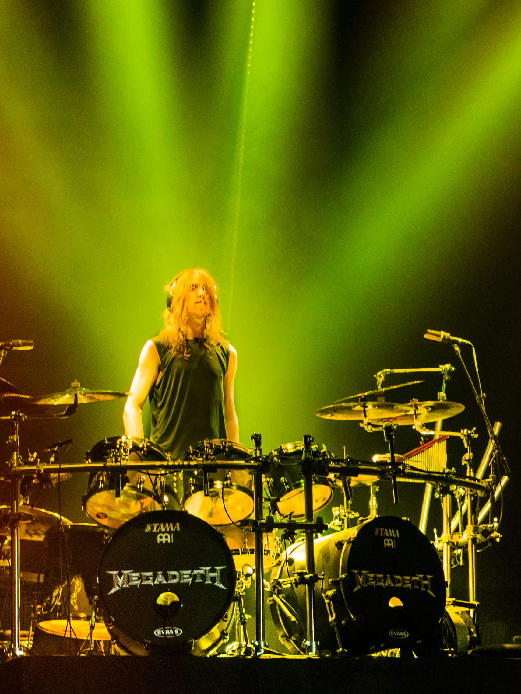 Dirk Verbeuren on stage with Megadeth at The O2, London, 16 June 2018